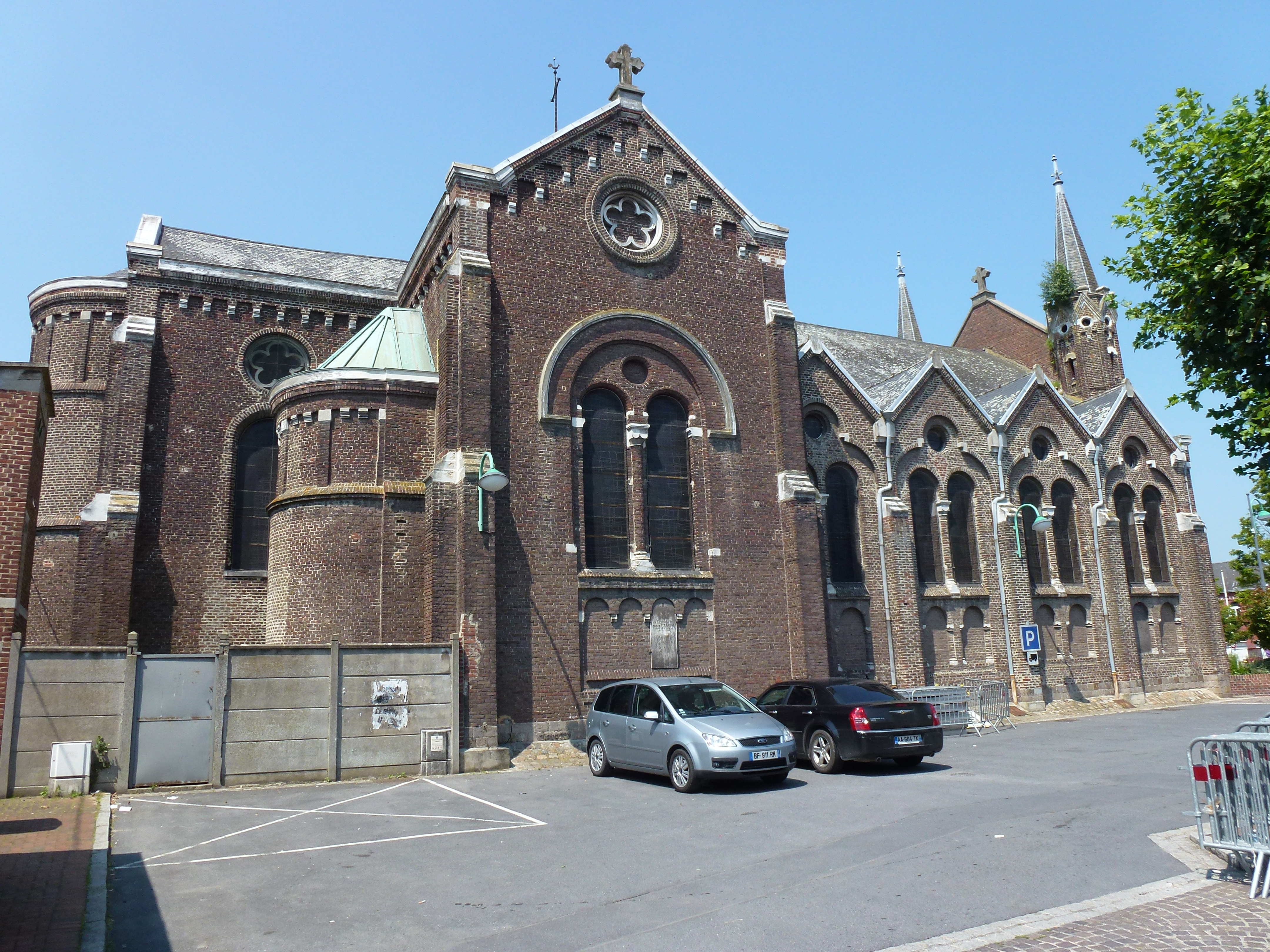 Hornaing (Nord, Fr) église